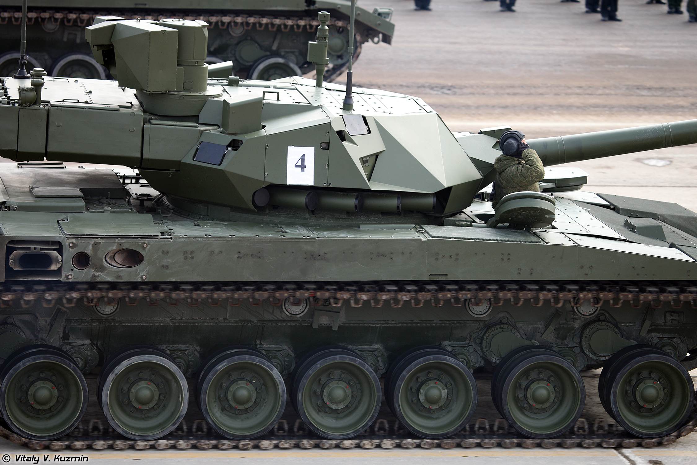 Main battle tank T-14 object 148 on heavy unified tracked platform Armata